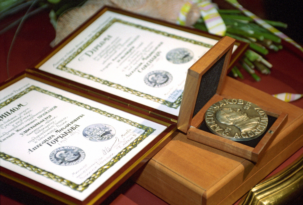 “Yevgeny Primakov's award”. A diploma and Gorchakov medal (named in honor of Russian diplomat Alexander Gorchakov (1798-1883). Conferred on Yevgeny Primakov for significant contributions in consolidation of peace and development of international cooperation.